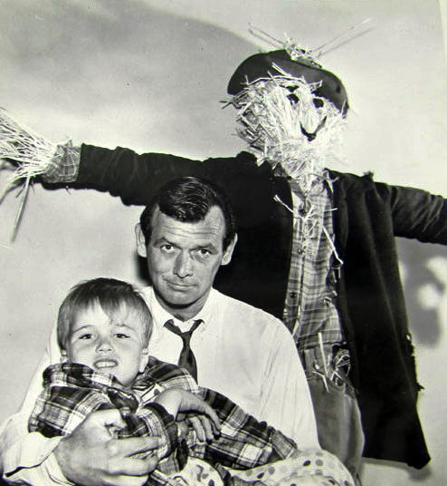 Publicity photo of David Janssen as Richard Kimble and Clint Howard from the television program The Fugitive.